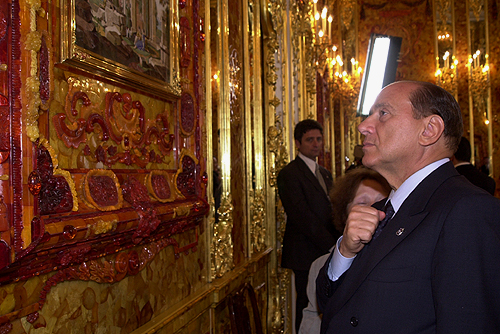 Pushkin (Russia), Catherine Palace, Italian Prime Minister Silvio Berlusconi in the Amber Room.